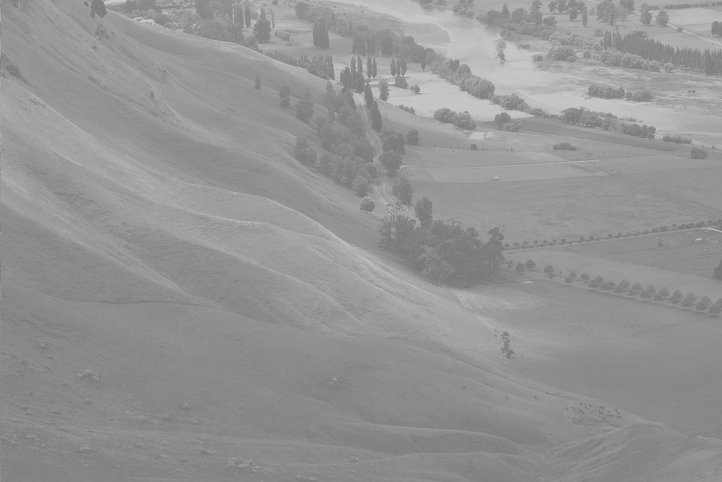 'Faded' version of Hawkes Bay NZ.jpg. Created to illustrate histogram equalization.